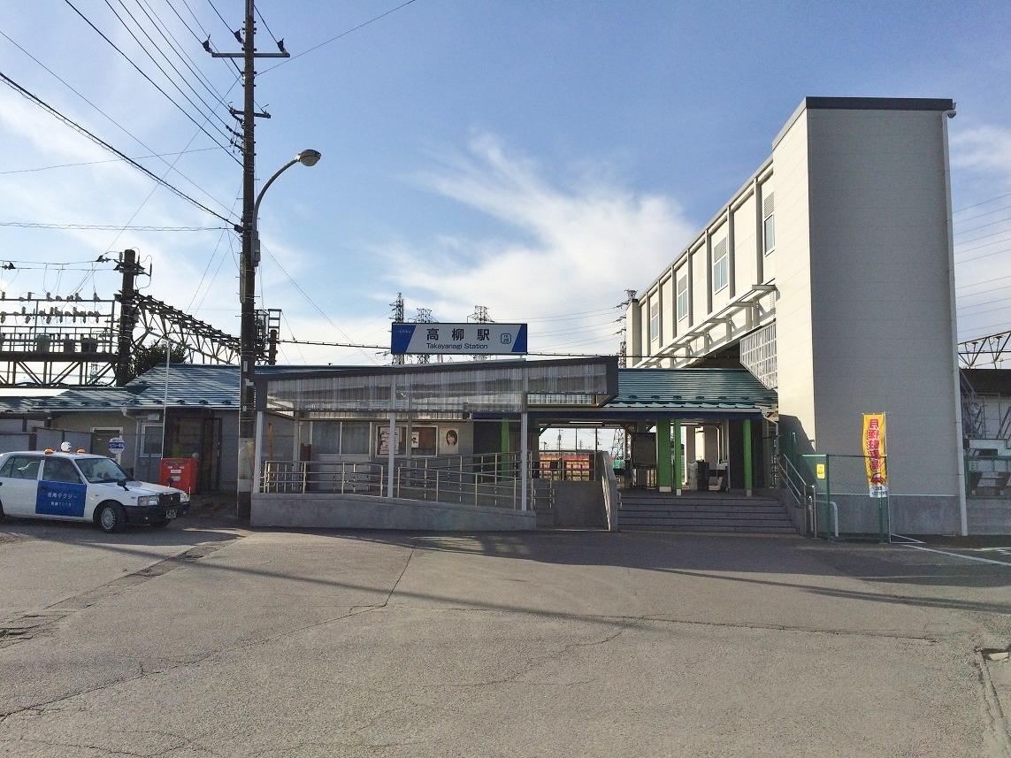 Takayanagi Station on the Tobu Urban Park Line